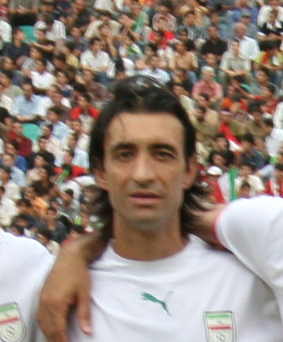 Iran National Football team